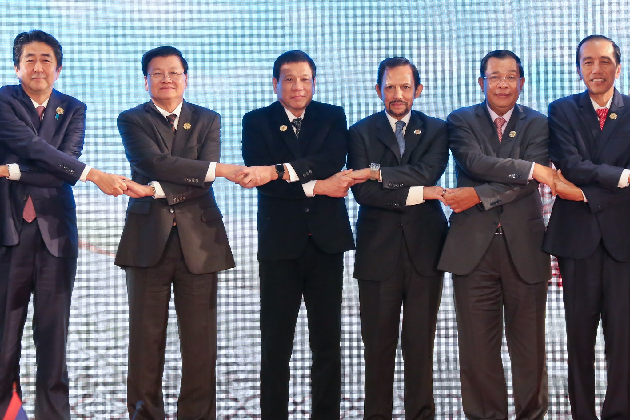 President Rodrigo R. Duterte joins other ASEAN heads of states, holding hands as a symbol of unity, during the second day of the ASEAN Summit at the National Convention Center in Vientiane, Laos on September 7.